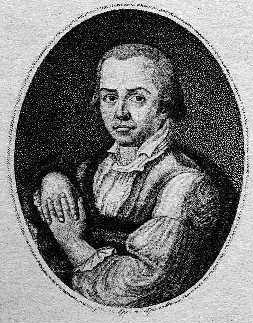 Mikhail Ivanovich Kozlovskiy